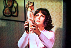 screenshot from the film Profondo rosso (1975)